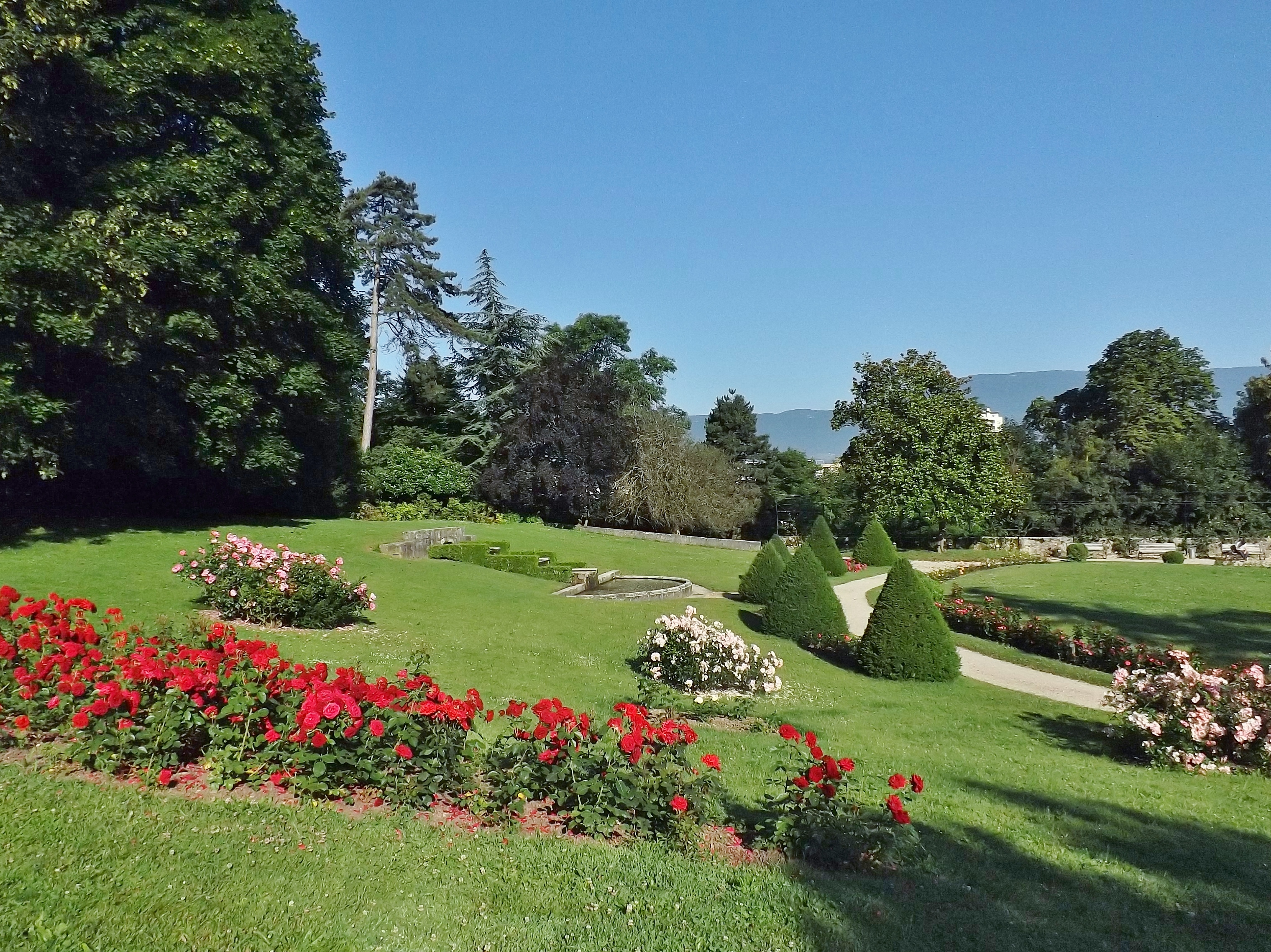 Sight of the parc de Buisson-Rond park rose garden in city of Chambéry, Savoie, France.